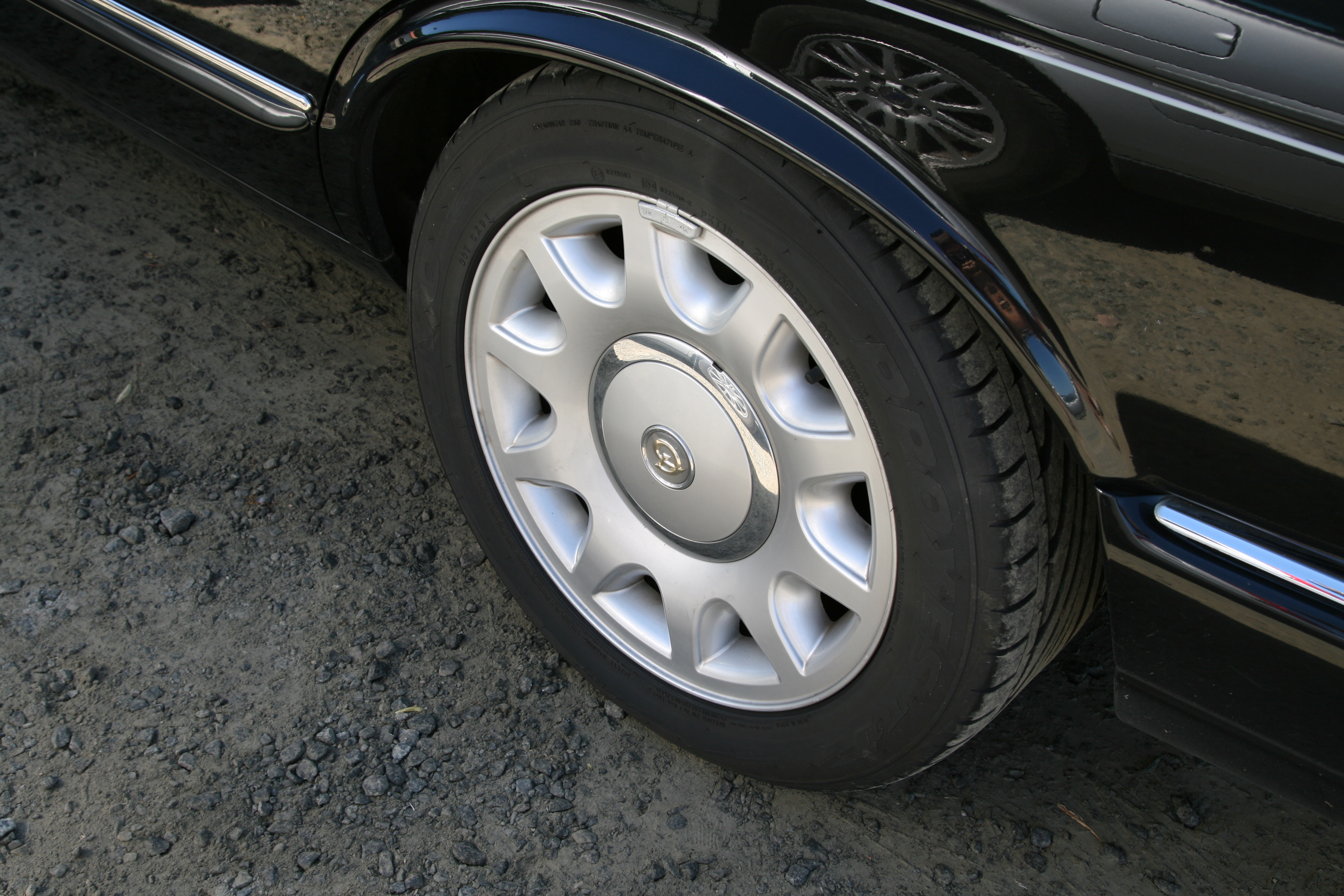 Close-up view of the Solar 7.5×17" alloy wheels available for some Jaguar/Daimler XJ cars from the late 1990s and early 2000s (X308 model). This vehicle is a 1998 Daimler Super V8.